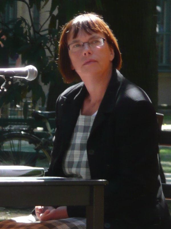 German author Kathrin Schmidt at the Erlanger Poetenfest 2009